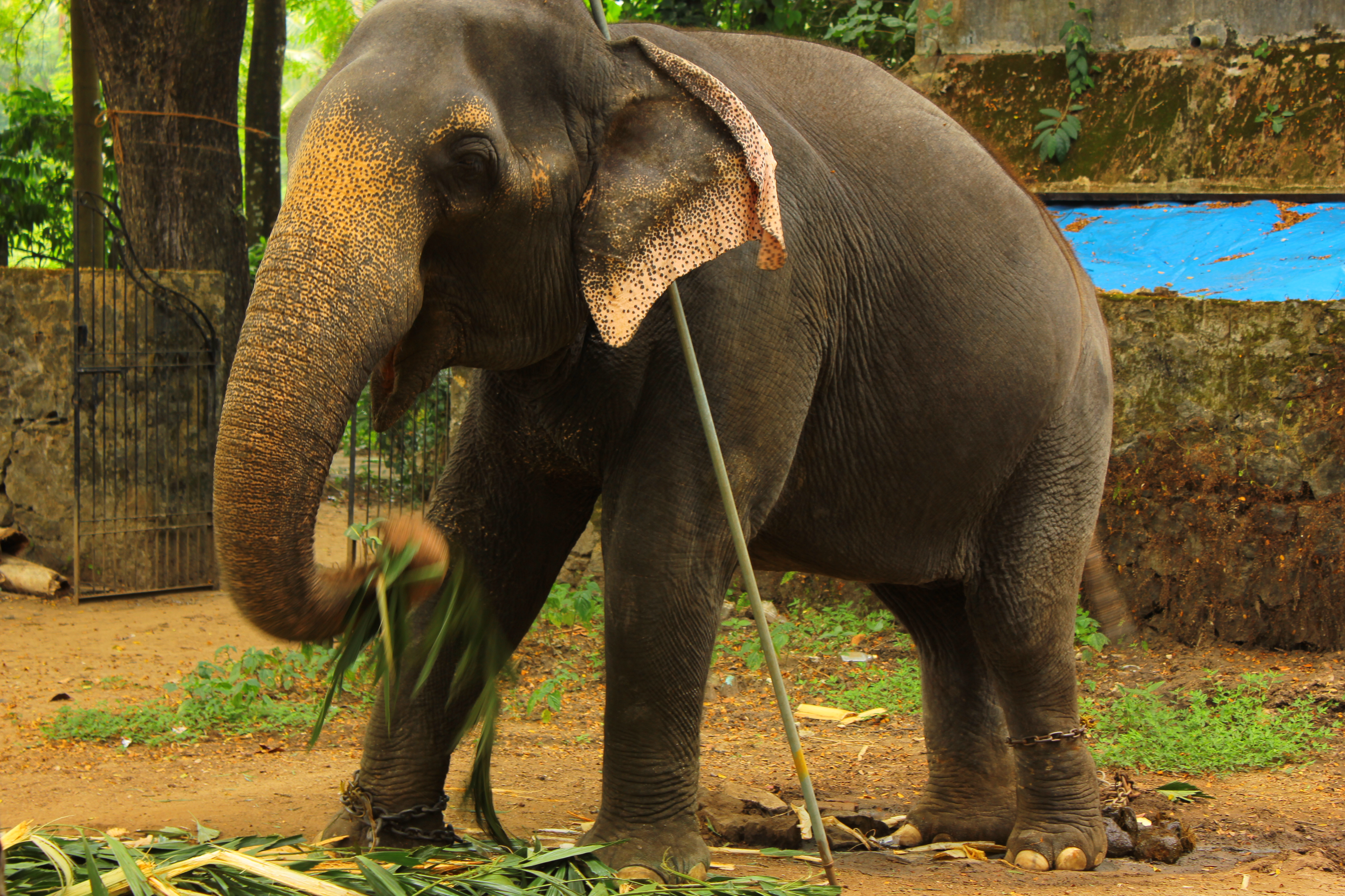 Elephant chained in punnathoor kotta - A place where the elephants are taken care in kerala, India